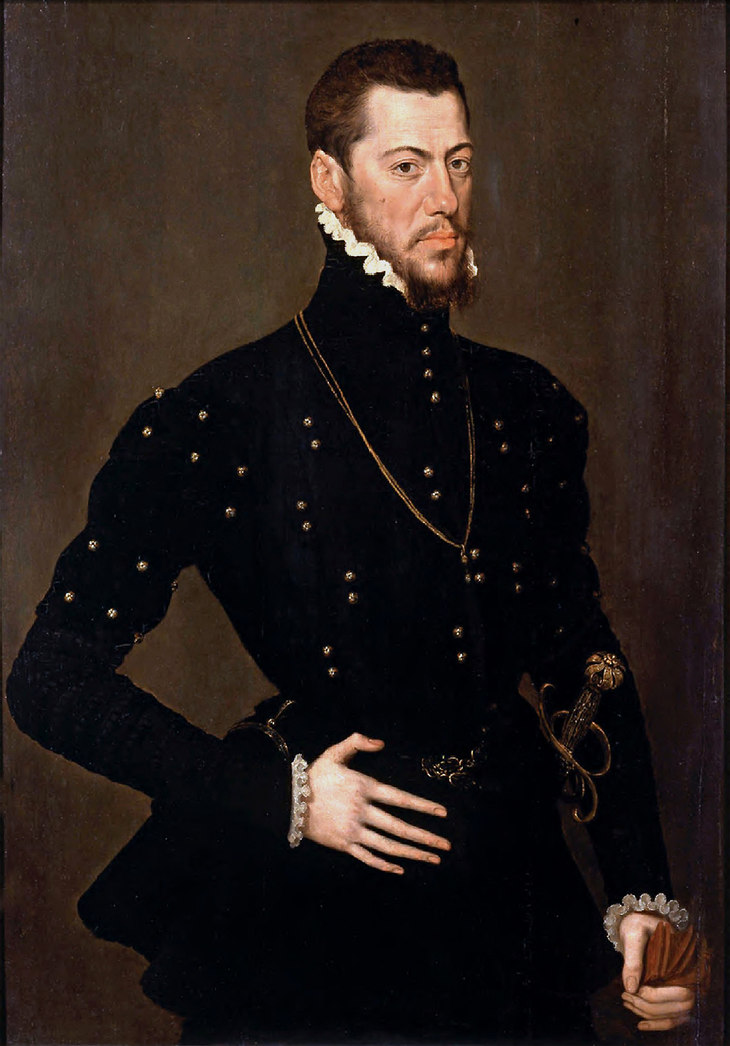 Portrait of Martín de Gurrea y Aragón (1526-1581), duque de Villahermosa y conde de Ribagorza.